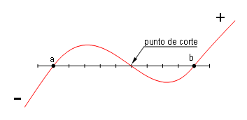 Graphic for understanding Bolzano´s theorem